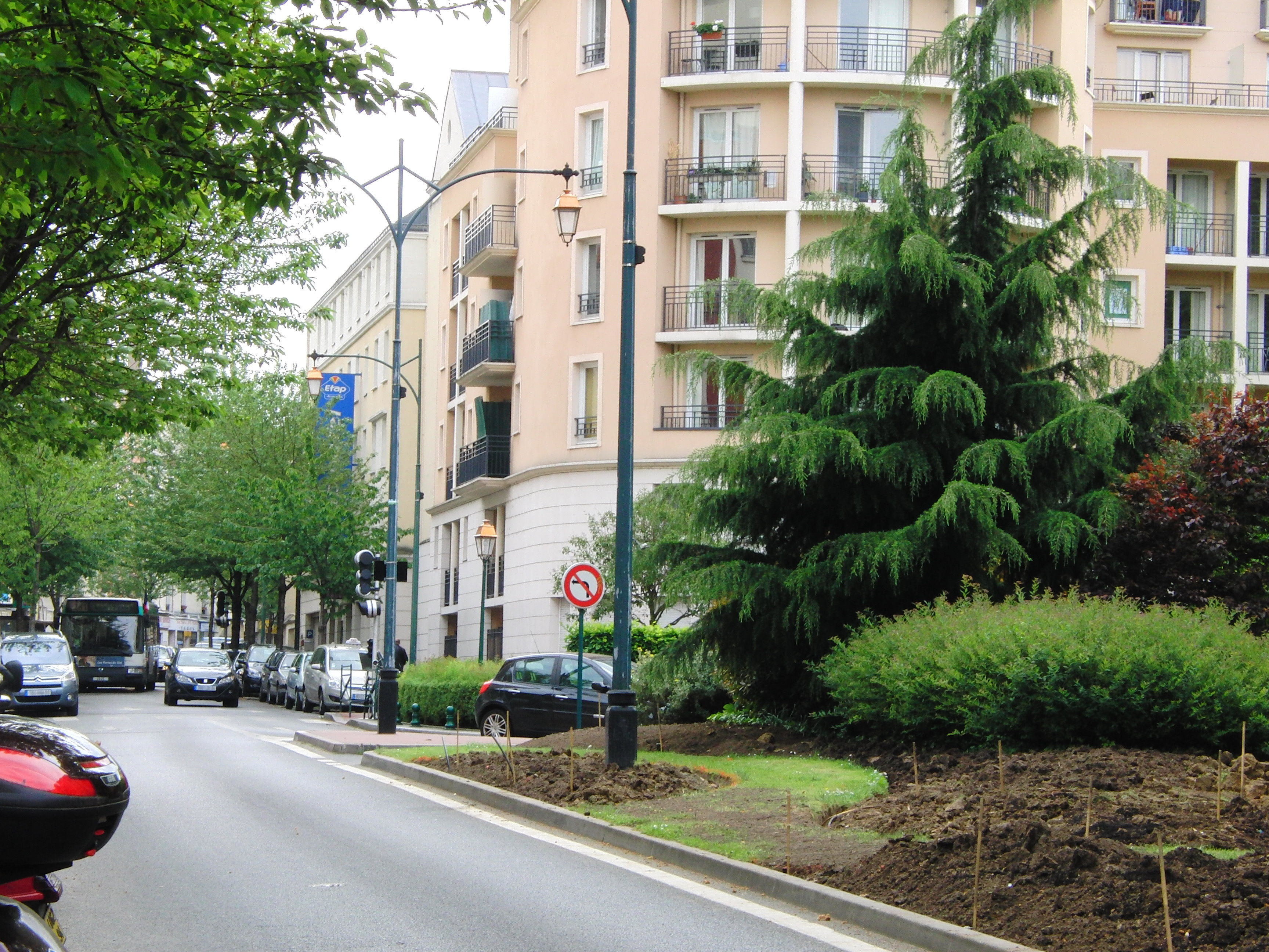 Street of Saint-Maurice